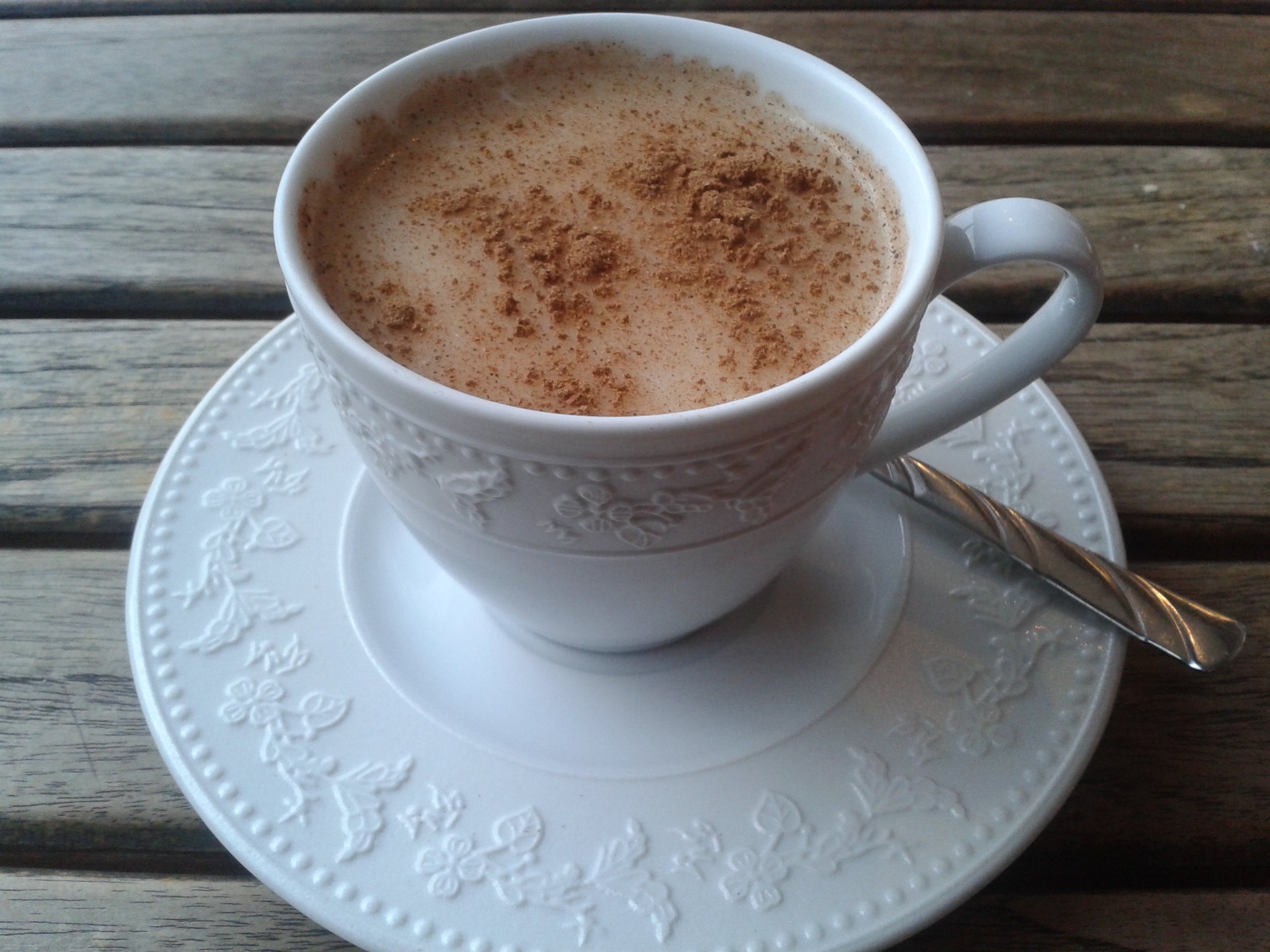 A cup of salep on a wooden table.